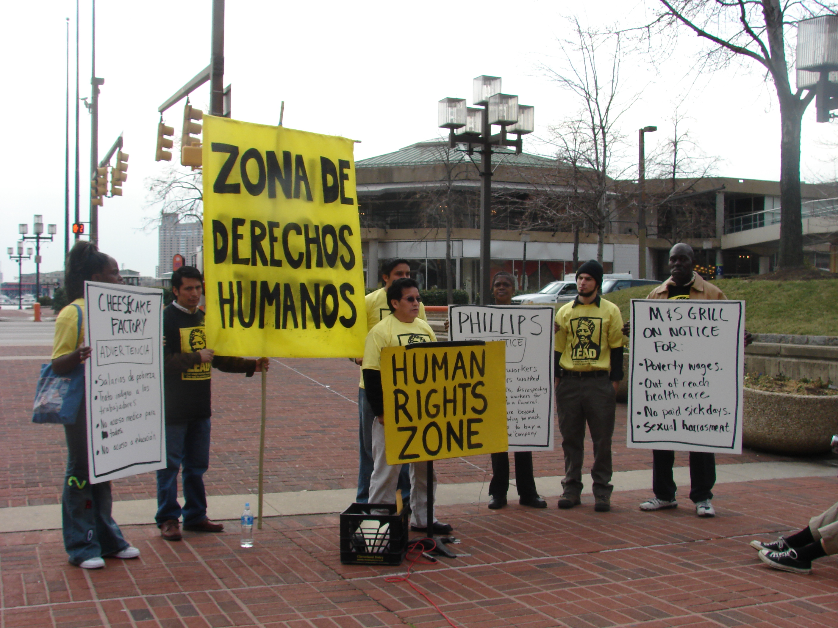 United Workers picketers.